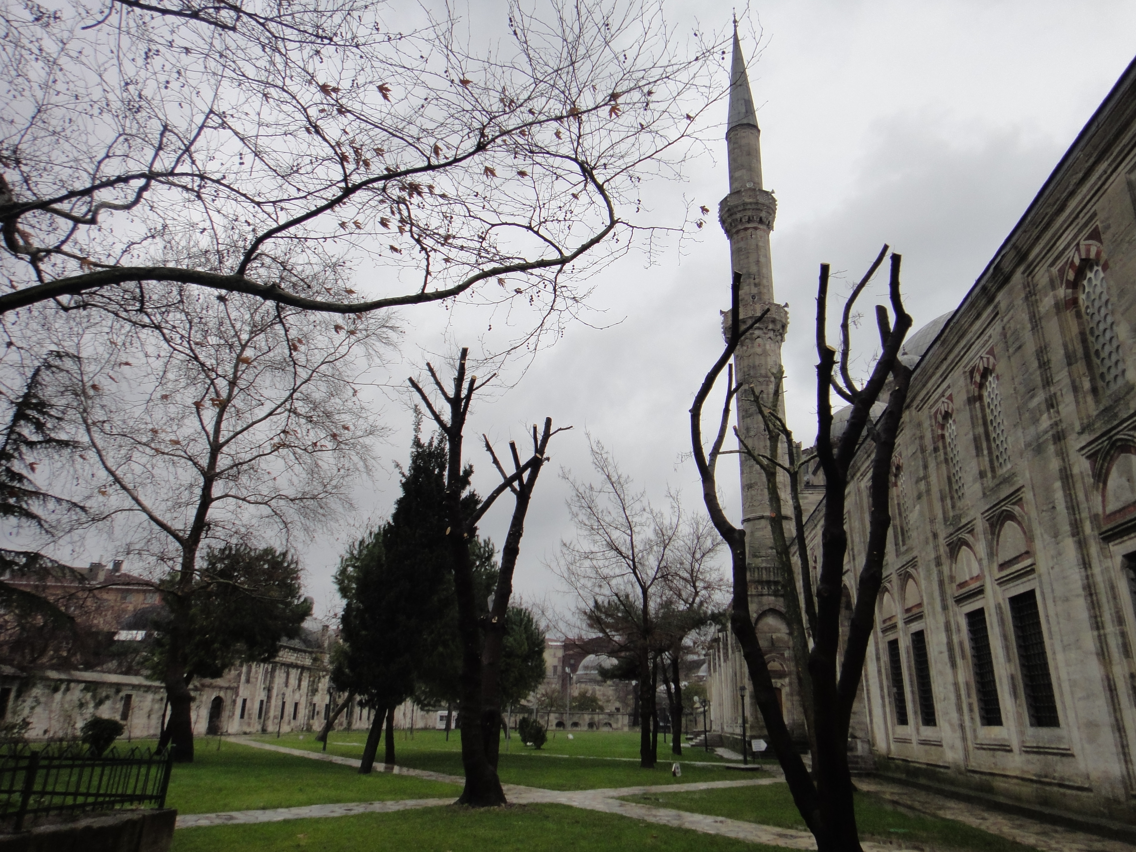 Courtyard of the Şehzade Mosque, Istanbul.